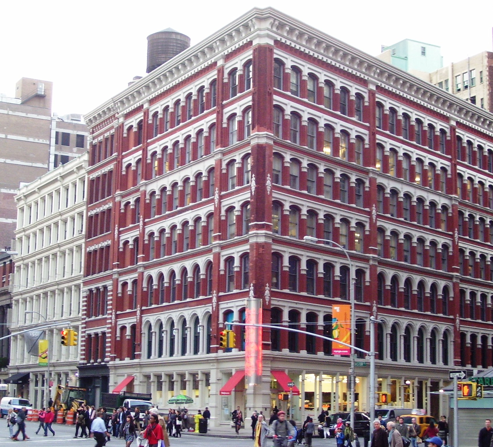 The building at 444 Lafayette Street on the corner of Astor Place in the NoHo district of Manhattan, New York City, was originally the "Astor Place Building". It was built in 1876 and designed by Griffith Thomas. The white building on the left is 436 Lafayette Street, with a cast iron front.